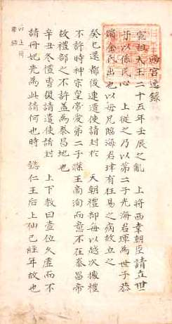 Gyechuk ilgi (Dairy of 1613)